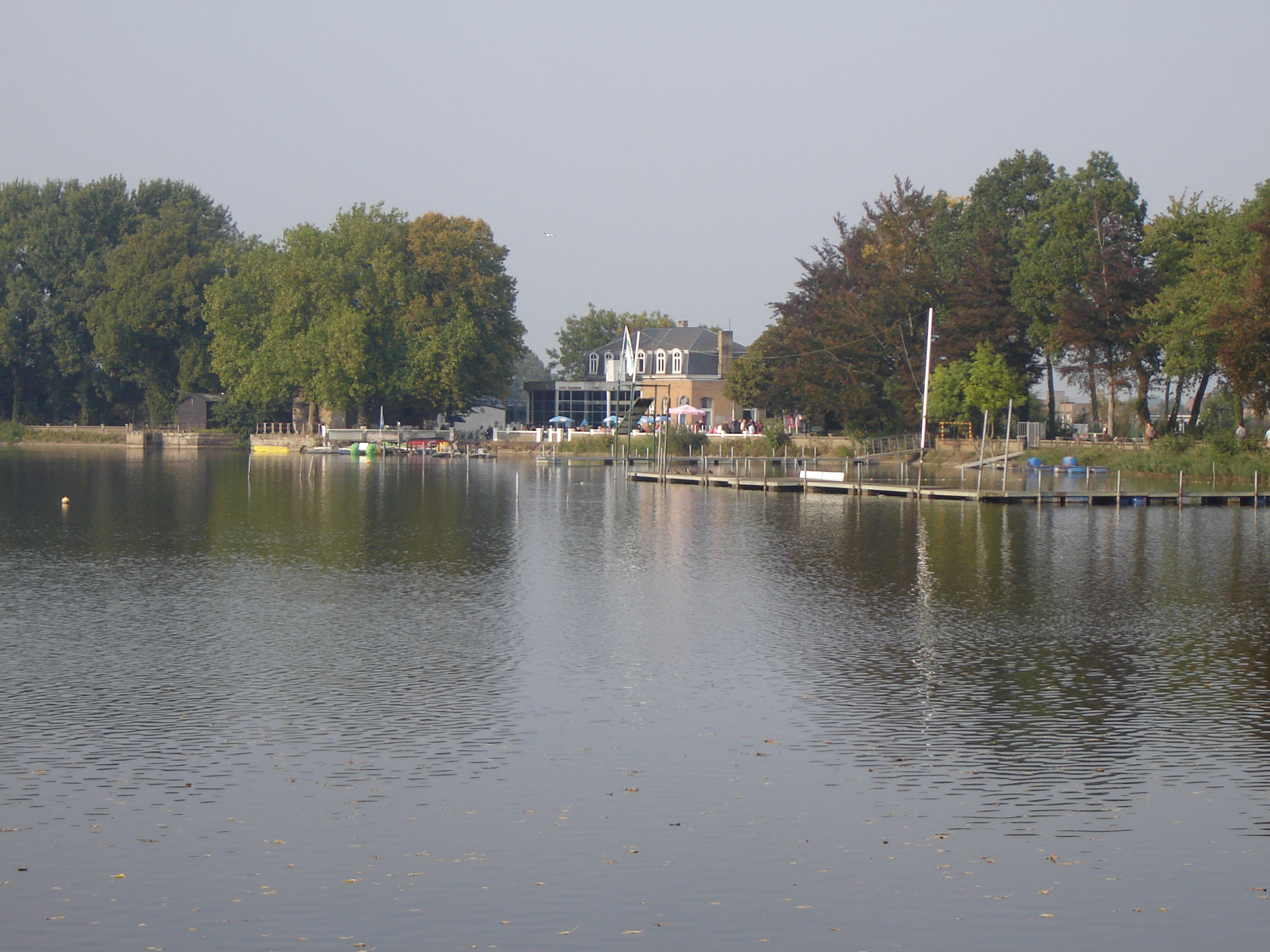 Dikkebusvijver lake in Dikkebus. Dikkebus, Ieper, West Flanders, Belgium